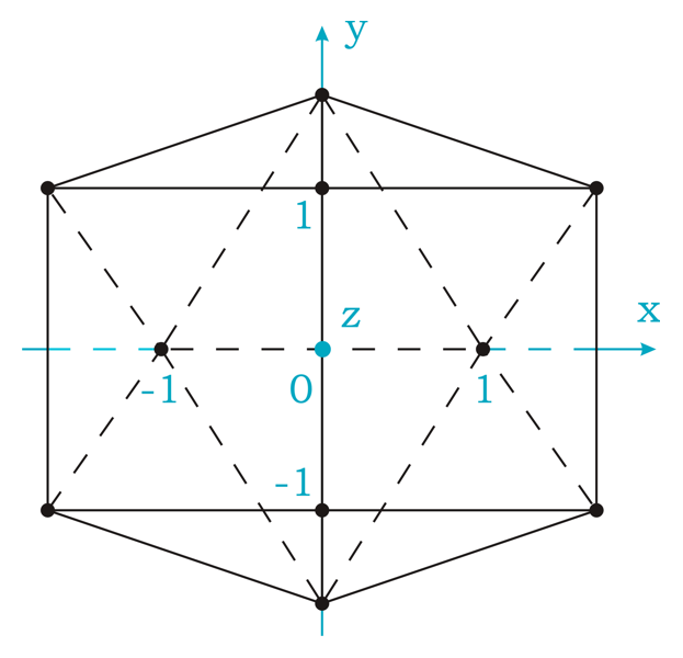 Sphenocorona in Cartesian coordinate system: top view (xOy projection)